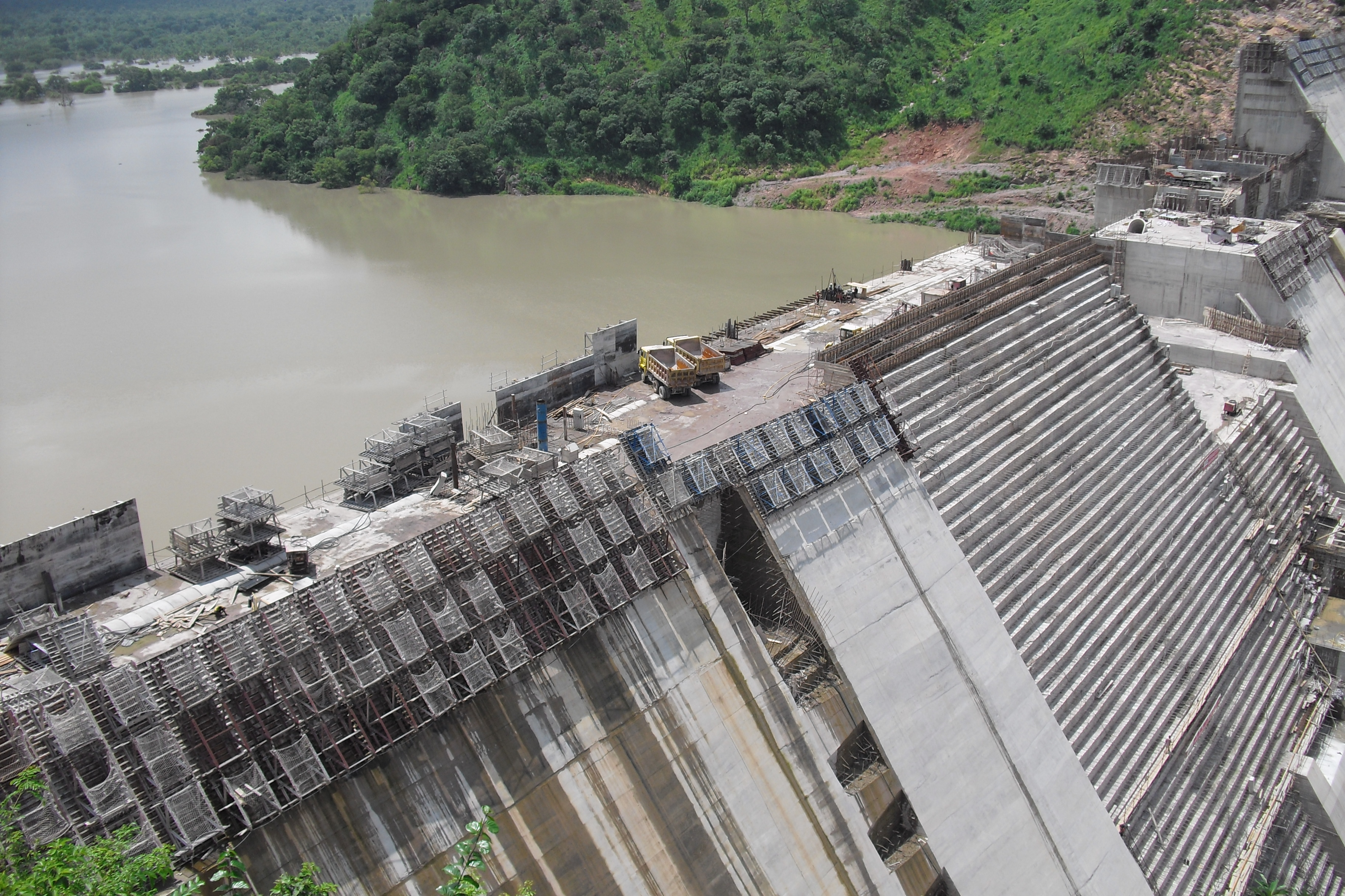 The Bui Dam is under construction